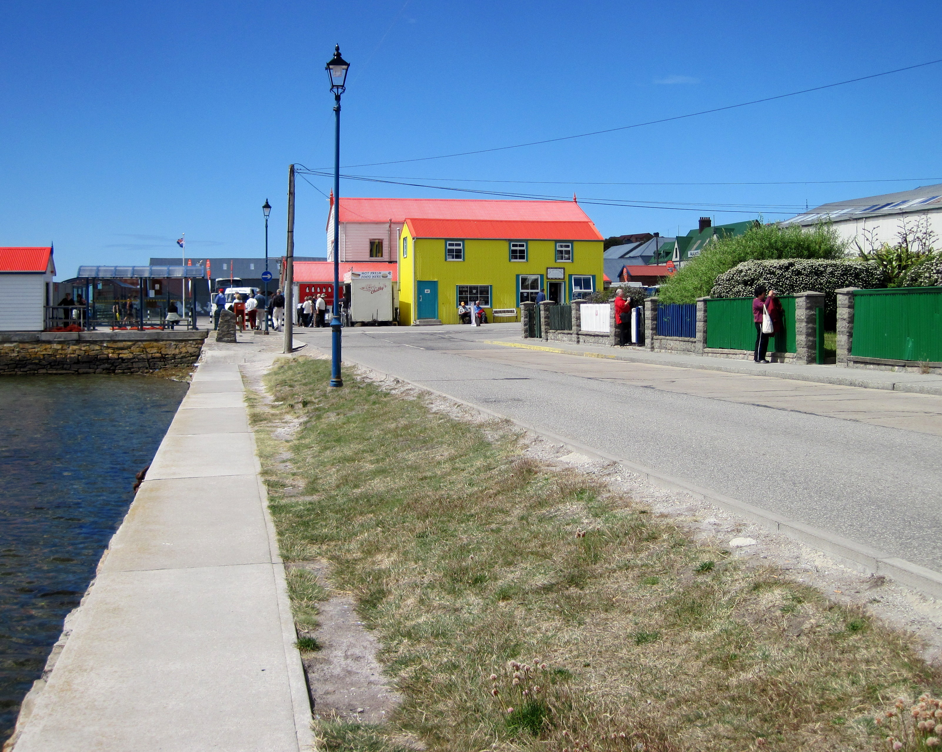 Stanley Harbour Quay in the Town of Stanley, Falkland Islands